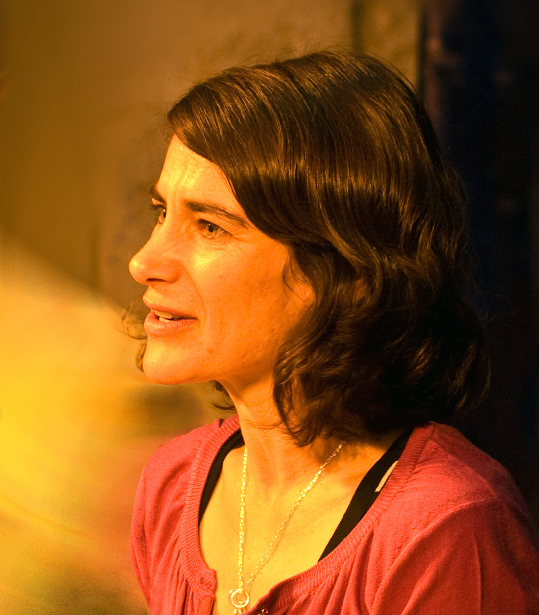 Portrait of Ester Freud, cropped version of "William_Dalrymple.jpg", at PalFest 2008